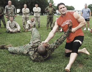 Ken Shamrock, four-time mixed martial arts world champion and Marine Corps Martial Arts Program subject matter expert, demonstrates a finishing move August 17 for students and instructors at the Martial Arts Center of Excellence here. Shamrock emphasized the need to kill an enemy combatant within three to five seconds. “When (Marines) are getting engaged in hand-to-hand combat, they don’t have time to roll around in the dirt,” said Shamrock. “They need to finish the person quickly and get out.”